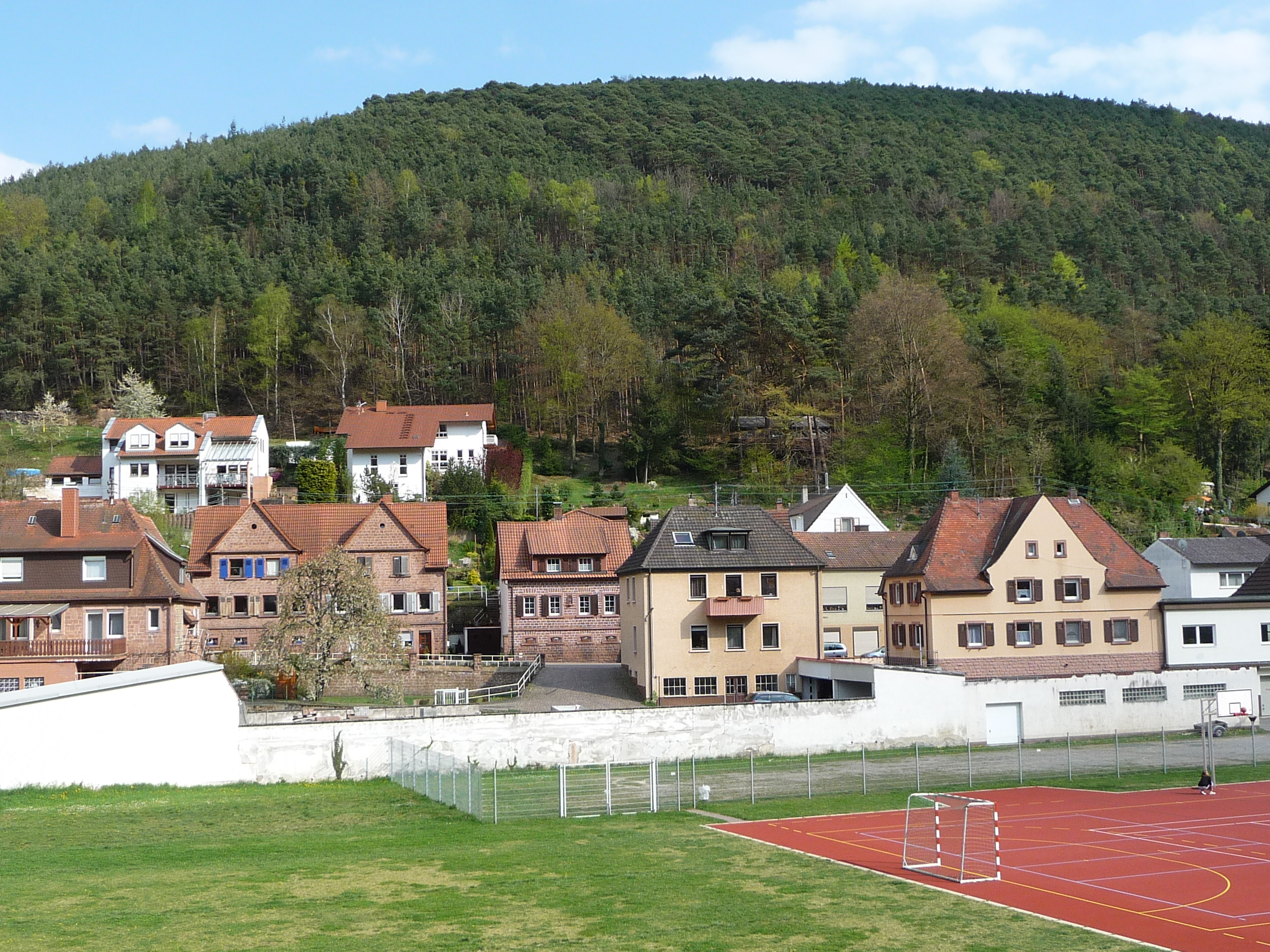 Lindenberg (Pfalz)